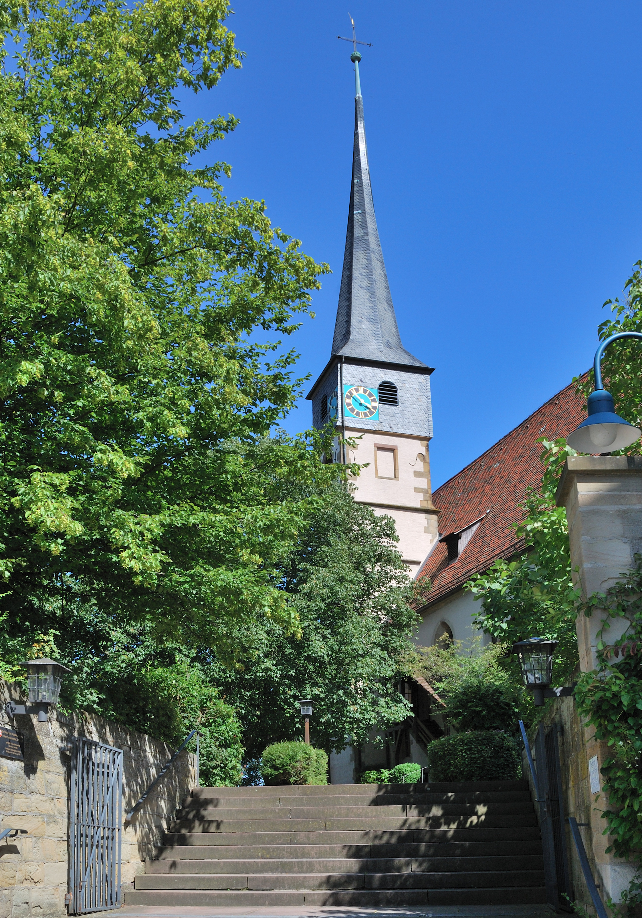 The Konstanz church in Ditzingen, is an evangelic church in the late gothic style dated from app. 1470. Baden-Württemberg, Germany.